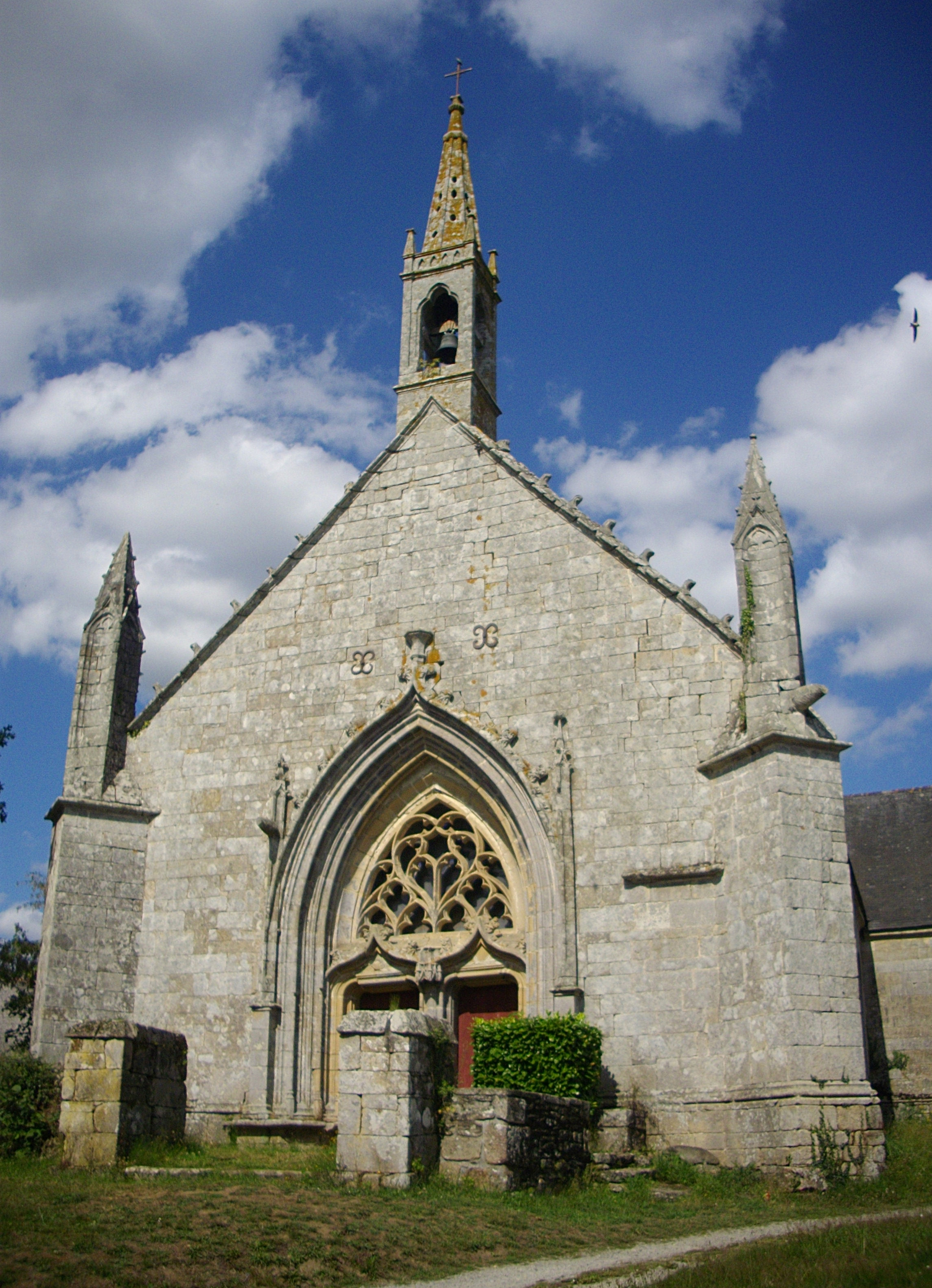 Front of the chapel of Saint-Nicolas-des-Eaux, Pluméliau, Morbihan, FranceBrezhoneg: Chapel Sant Nikolaz an Dour, e Pluniav